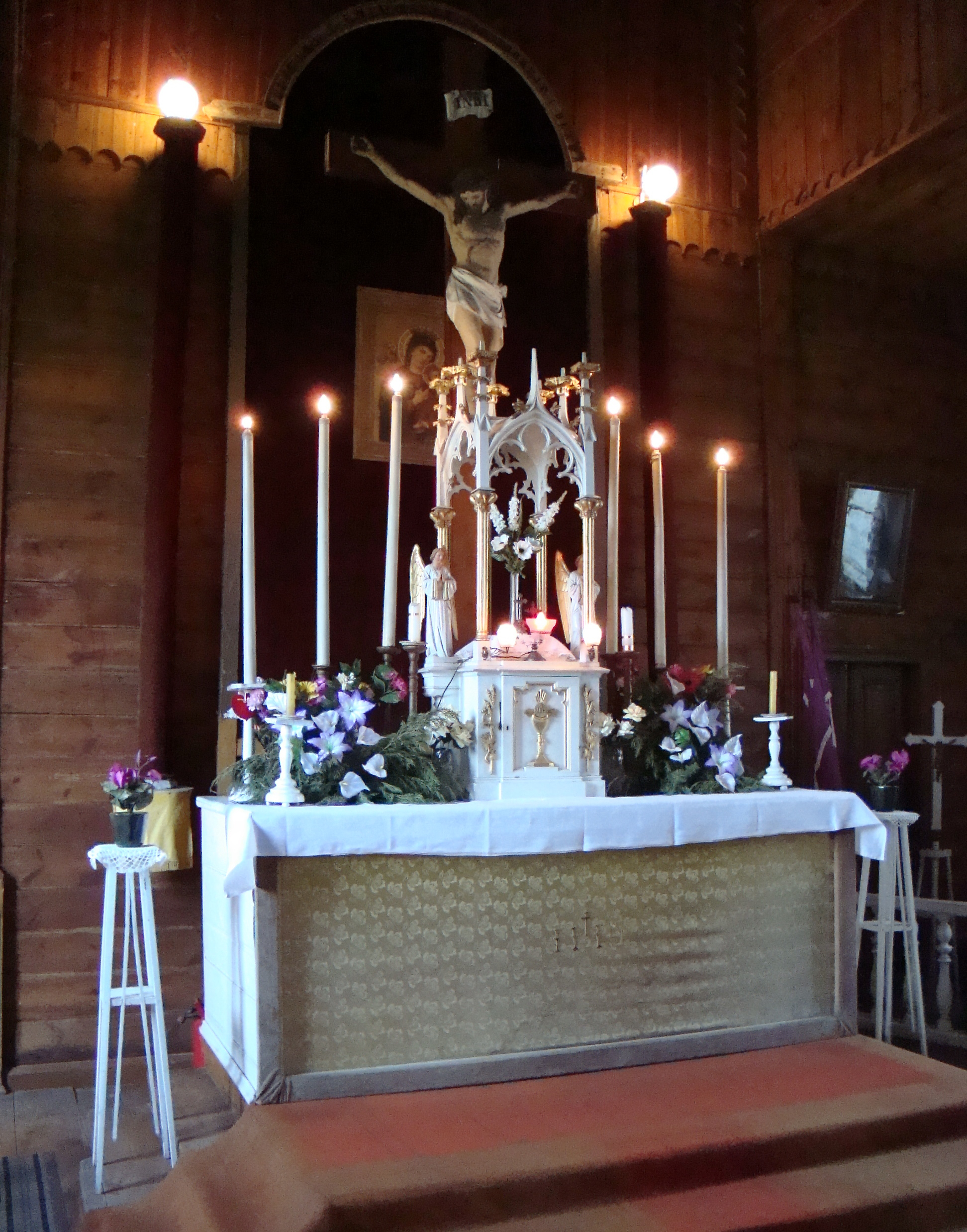 Old Catholic Mariavite Church in Markuszów